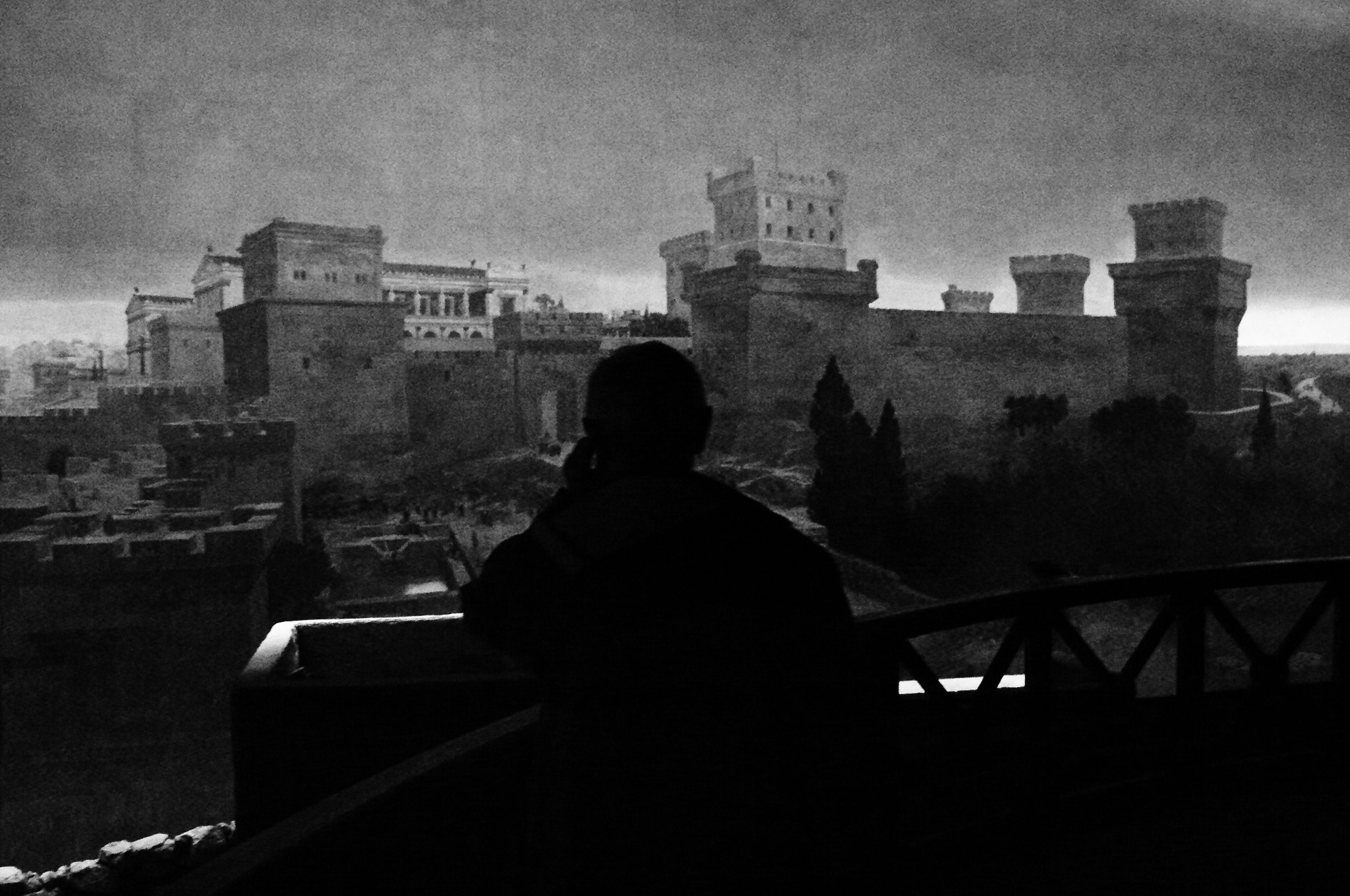 Panorama Jerusalem in Altotting.